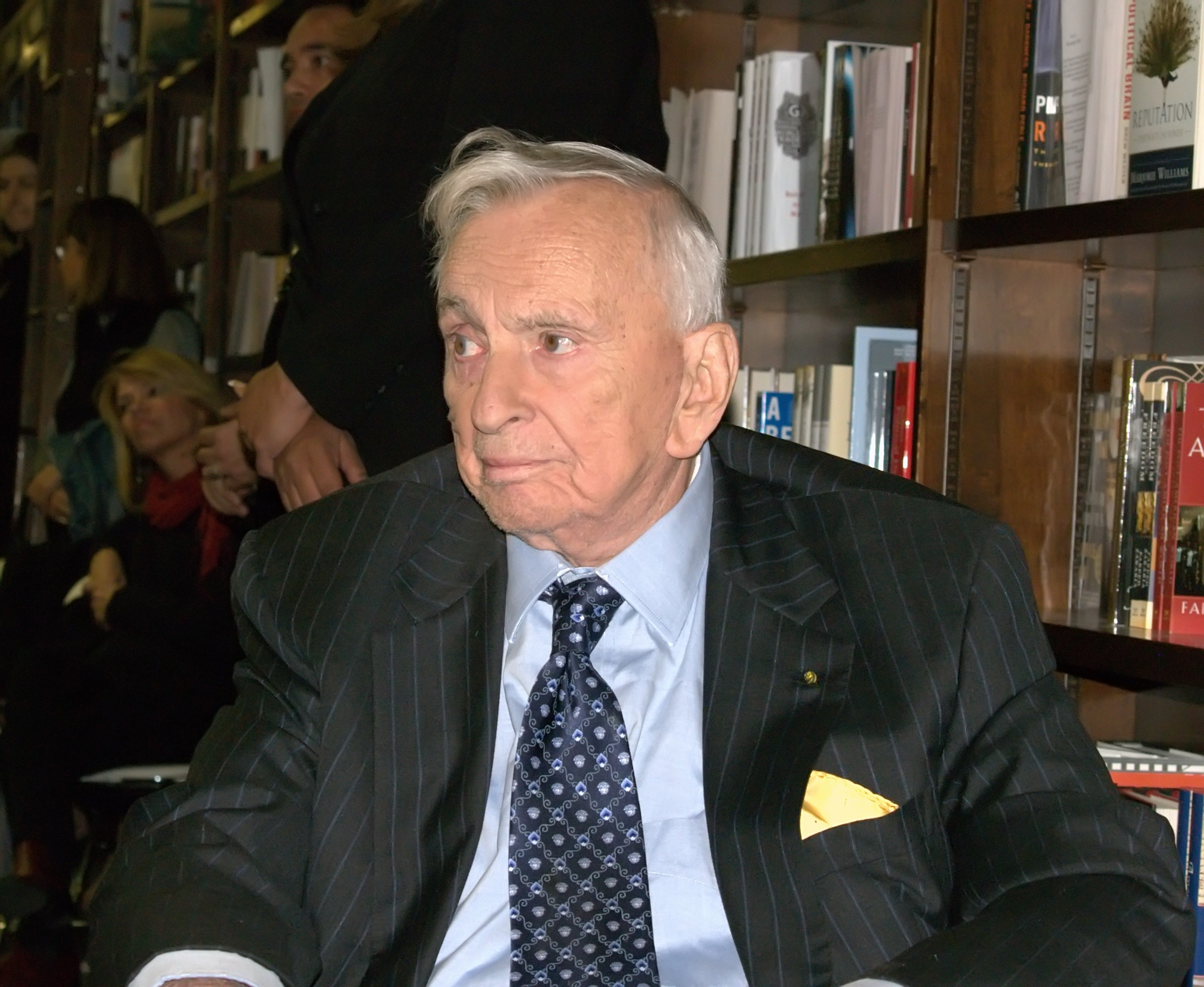 Gore Vidal at the Union Square Barnes & Noble to be interviewed by Leonard Lopate to discuss his life and his photographic memoir, Gore Vidal: Snapshots in History's Glare.